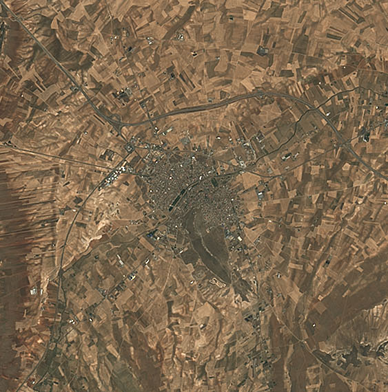 Observational Data courtesy of Landsat 8 satellite (Bands: 2, 3, 4, 8) & USGS. Data processed by Paul Quast. Data Specifications: Coordinates: 38.8807, -4.2337. Acquired: 25-July-2016 (Entity ID: LC82010332016207LGN00, Path: 201, Row: 33). Features of interest: Ciudad Real Central Airport (Abandoned Airport) [Middle]. Parque Natural Sierra de Cardena y Montoro [Bottom-Middle]. Puertollano [Middle]. Sierra Morena Mountain [Bottom-Middle]. Toledo (Outskirts) [Top-Middle].